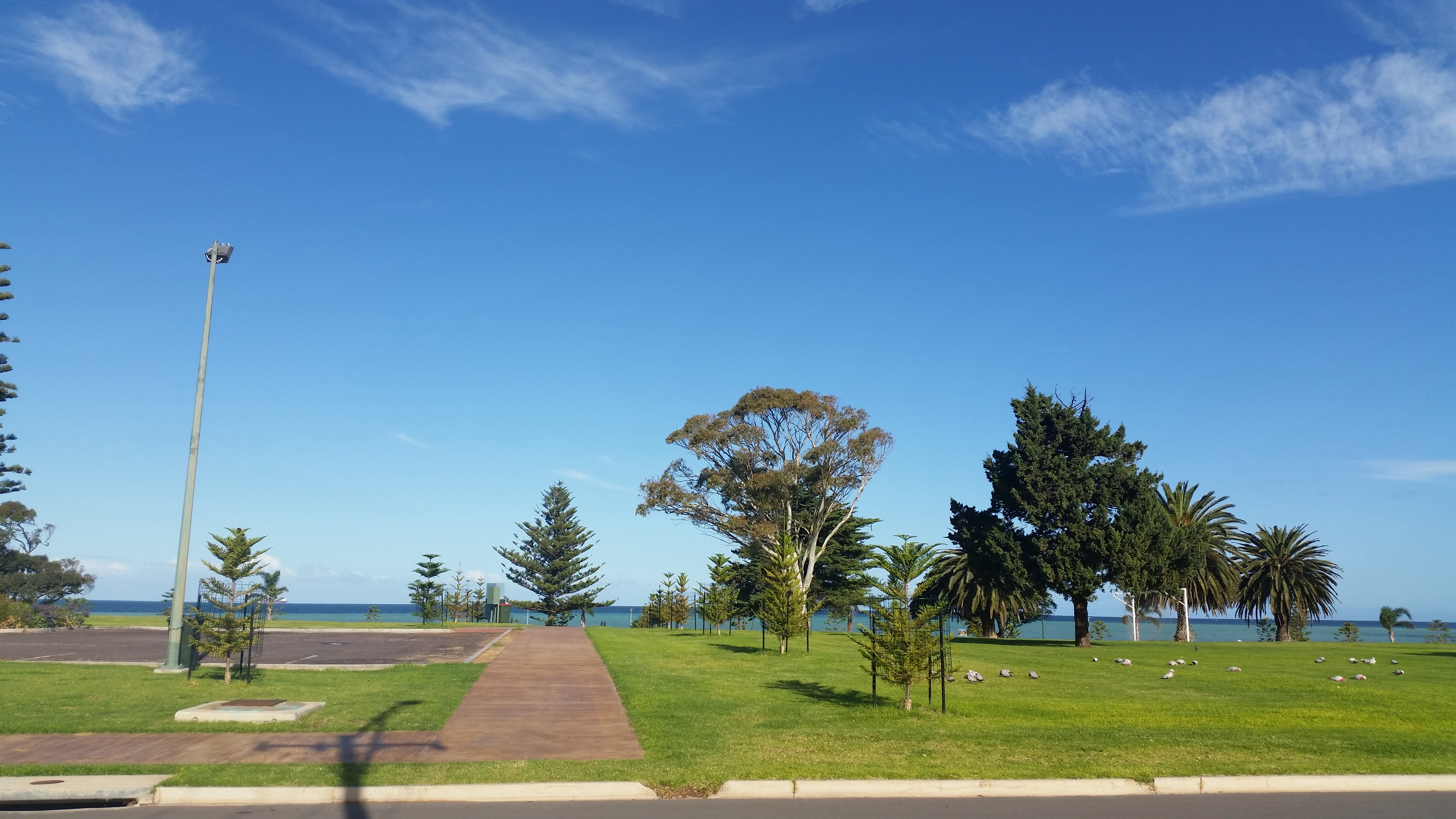 The Whyalla foreshore on a sunny winters day.